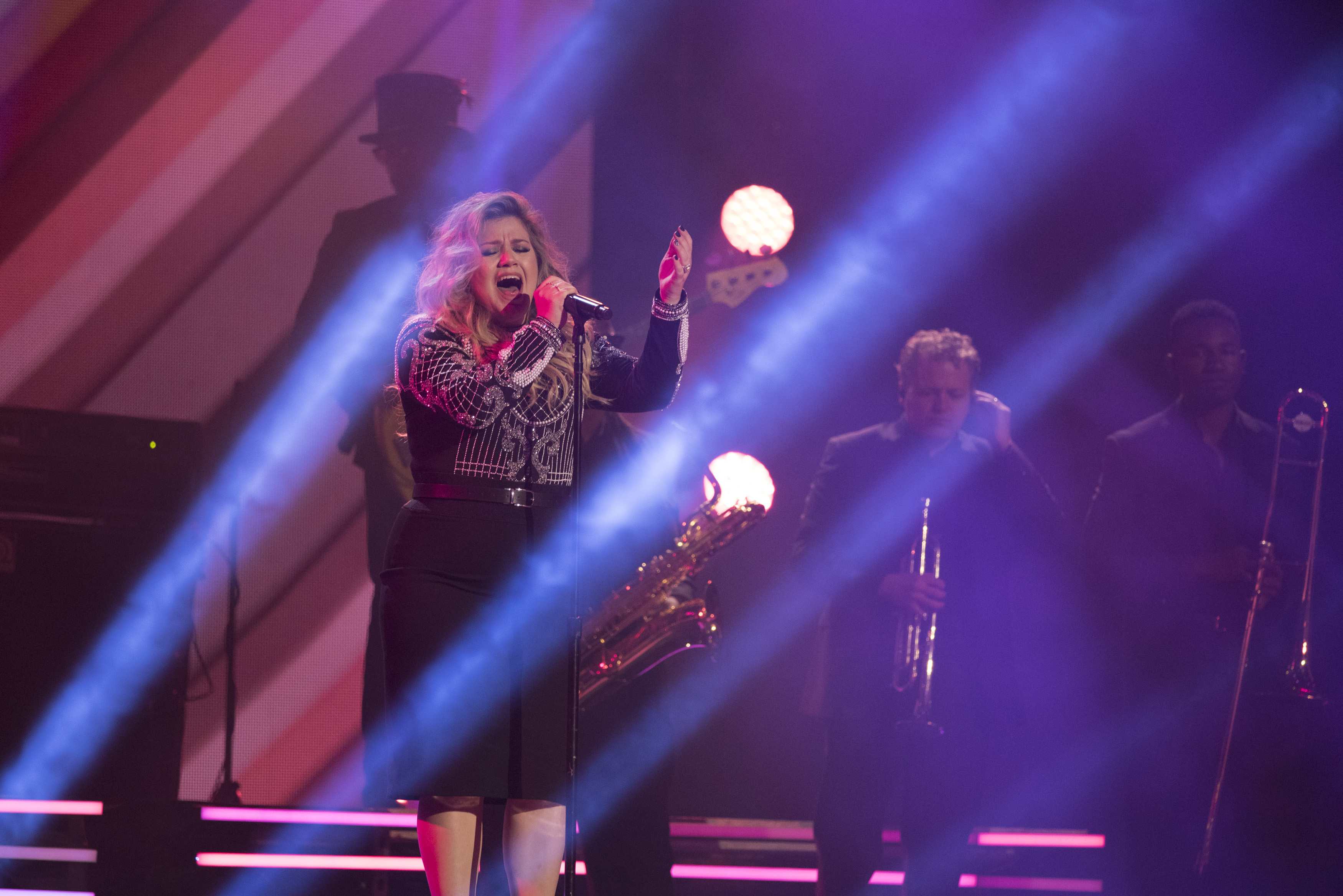 Kelly Clarkson performs during the Closing Ceremony for the 2017 Invictus Games at Air Canada Centre in Toronto on September 30, 2017. The Invictus Games, established by Prince Harry in 2014, brings together wounded and injured veterans from 17 nations for 12 adaptive sporting events, including track and field, wheelchair basketball, wheelchair rugby, swimming, sitting volleyball, and new to the 2017 games, golf. (DoD photo by Roger L. Wollenberg)